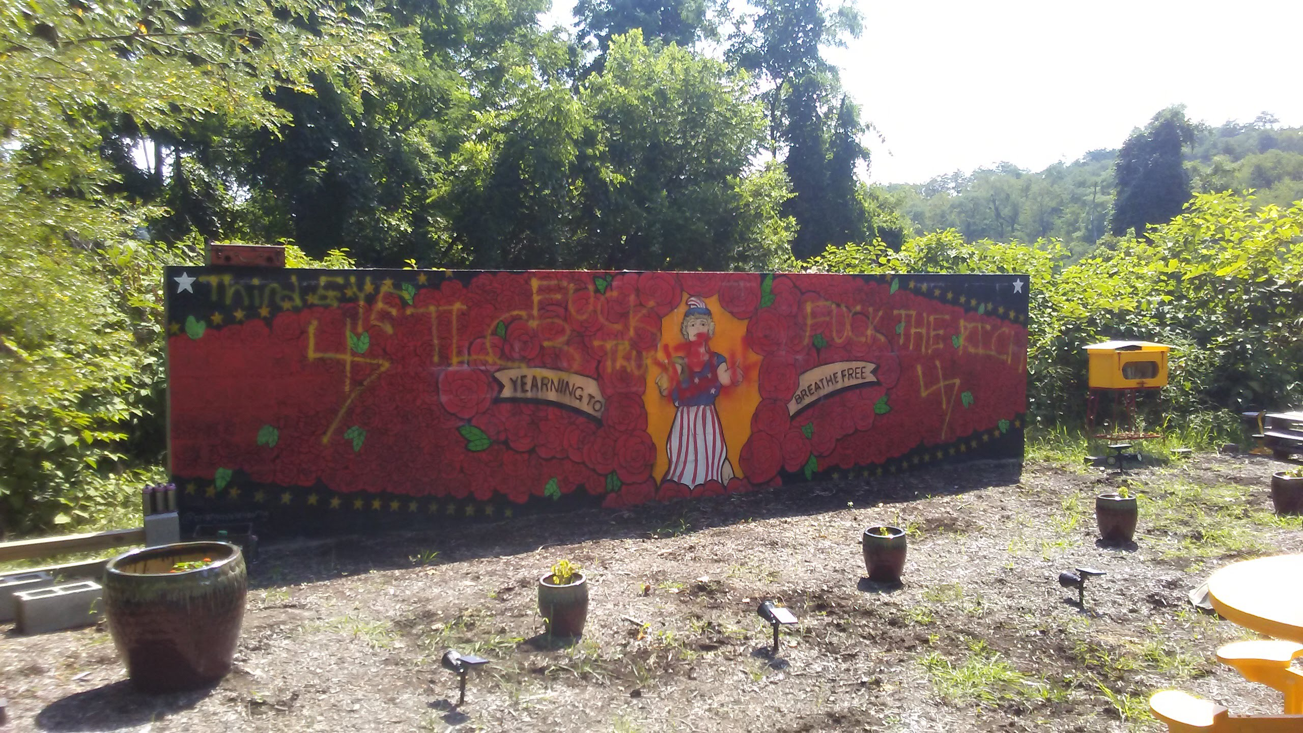 This is the mural after being vandalized